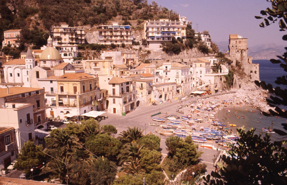 View of Cetara, a town in the province of Salerno